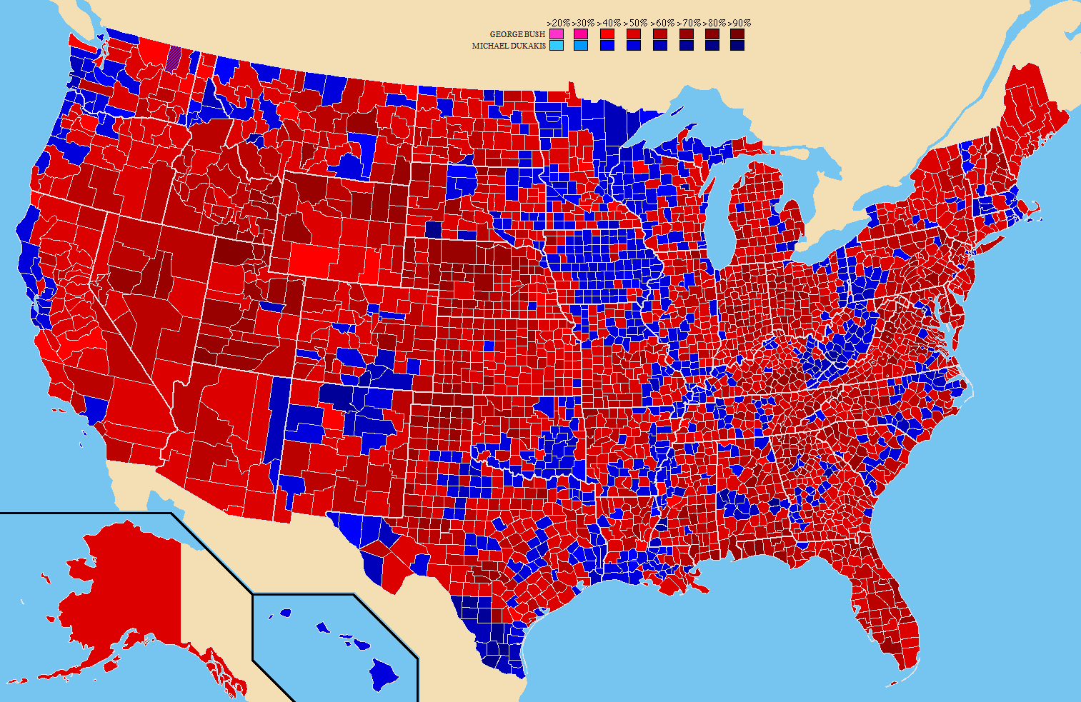 Map showing the results by county of the 1988 United States presidential election specifically identifying the percentage recieved by the winning candidate in each county.